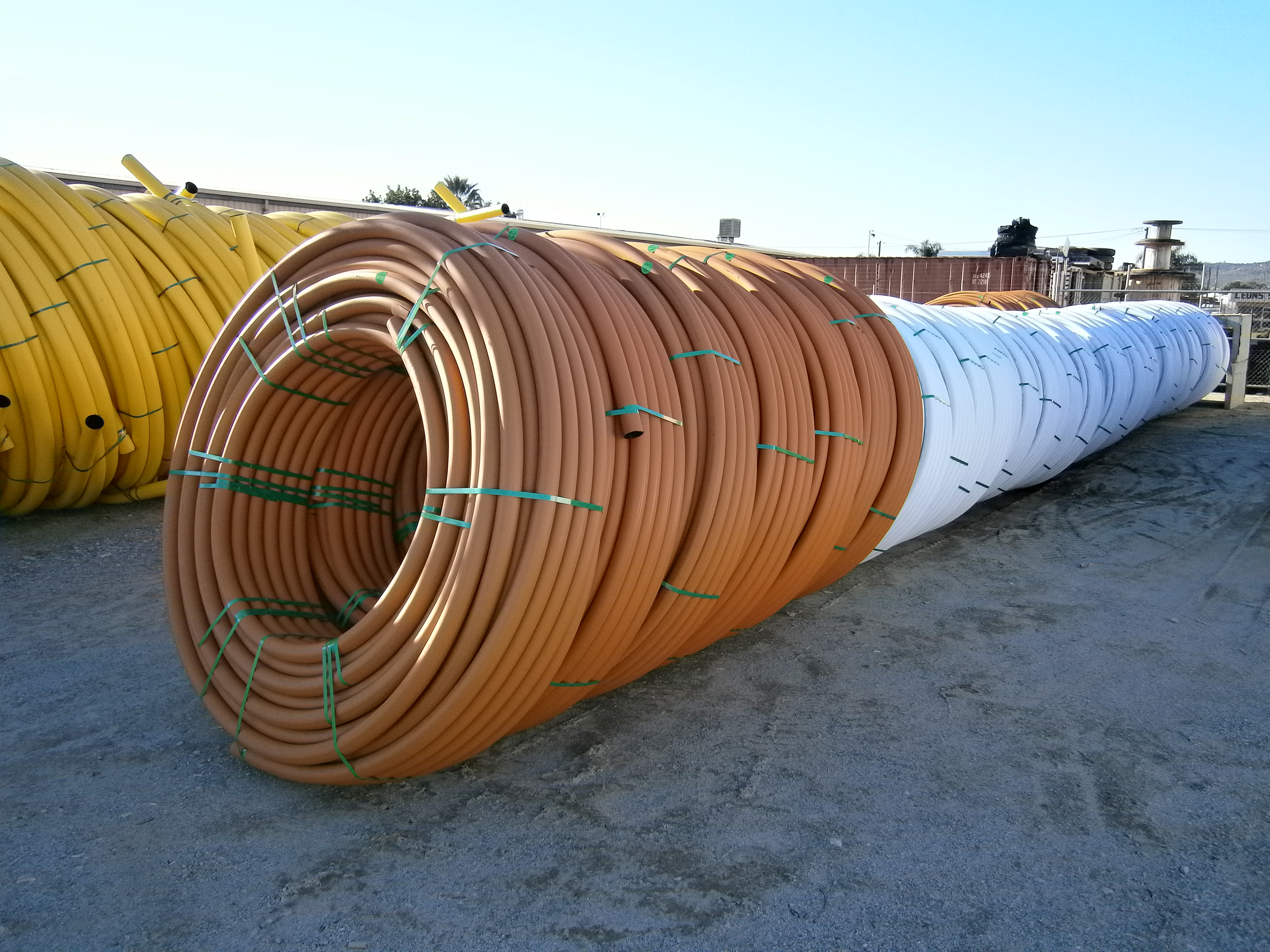 Acu-Tech HDPE Pipe - Yellow Jacket Gas Pipe, White Jacket Communications Conduit, and Orange Jacket Electrical Conduit.